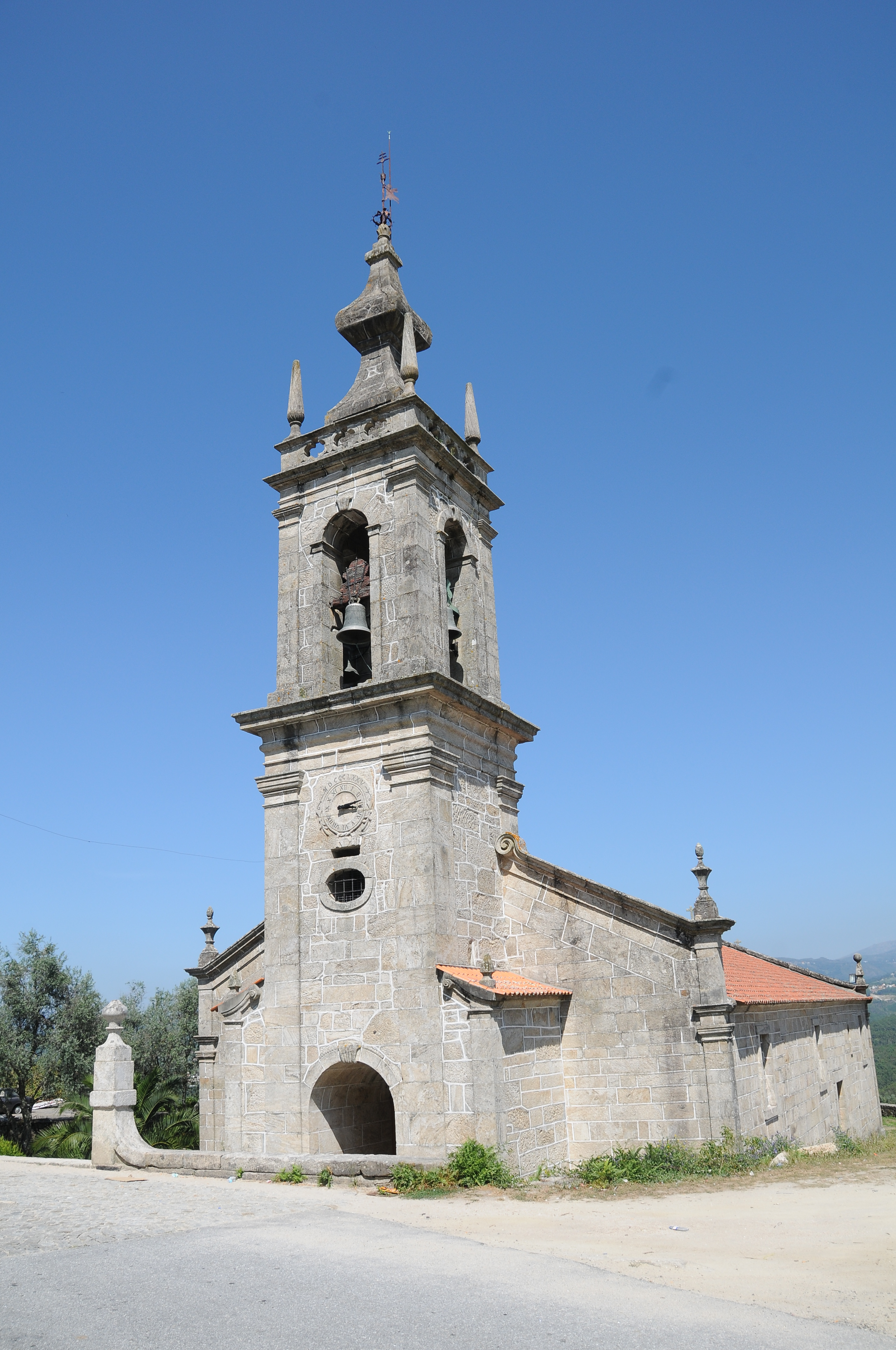 Merufe Church, in Merufe, Monção, Portugal